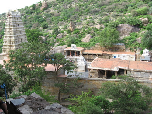 Yaganti Temple